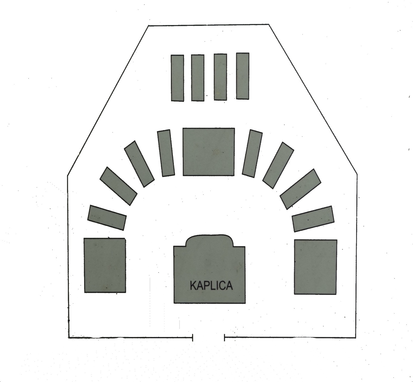 World War I Cemetery nr 157 in Dąbrówka Tuchowska